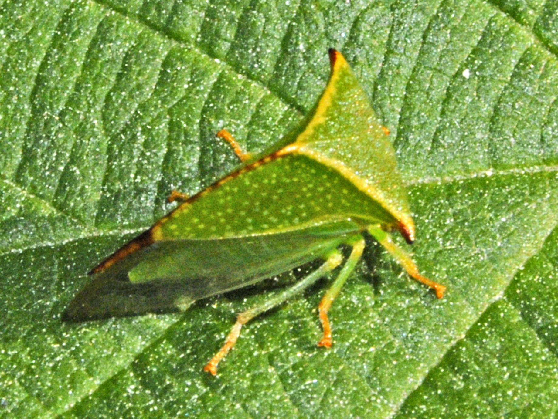 Stictocephala bisonia. Sant'Albano, Cuneo, Italy